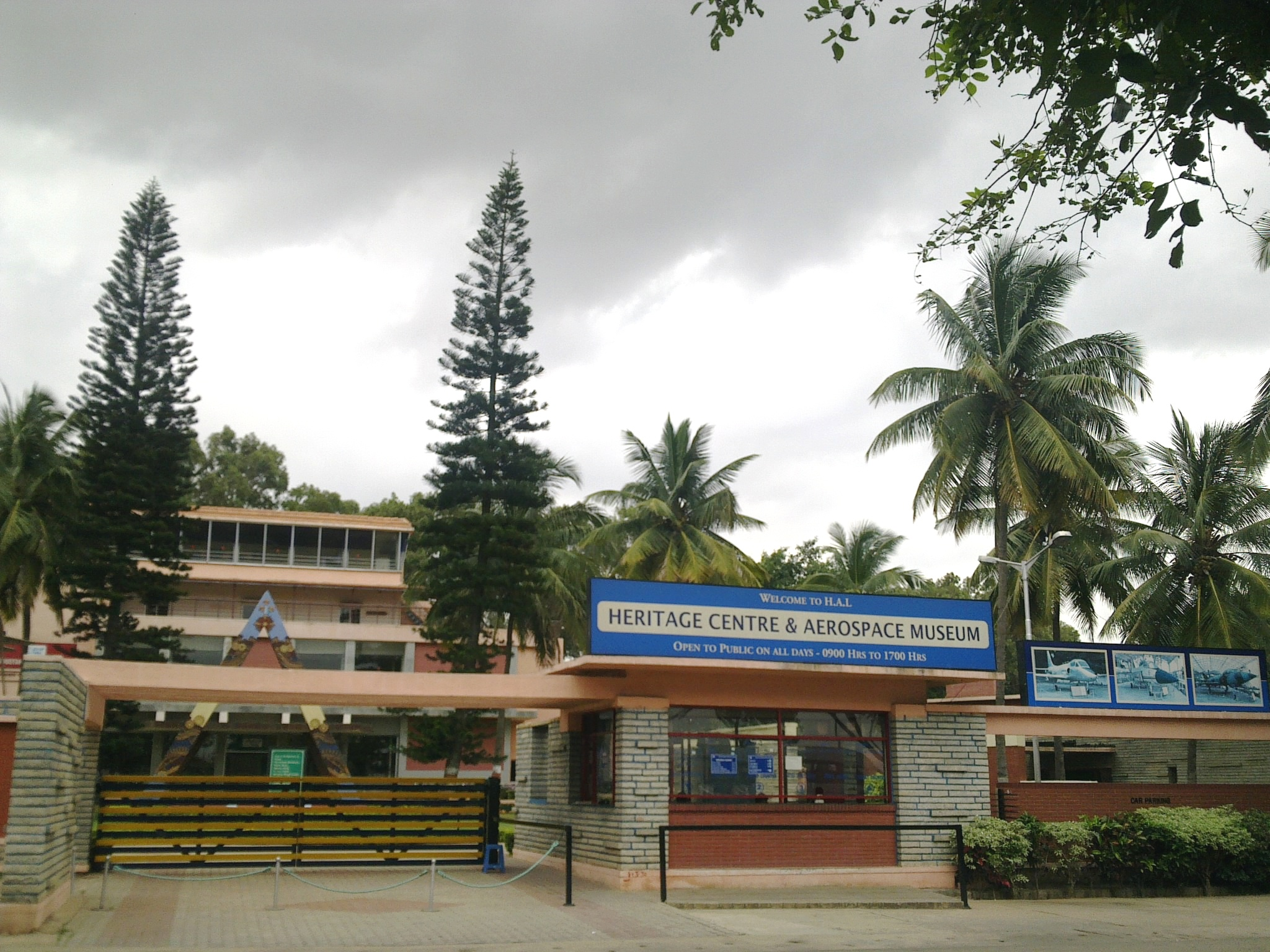 HAL Heritage Centre and AeroSpace museum, Bangalore